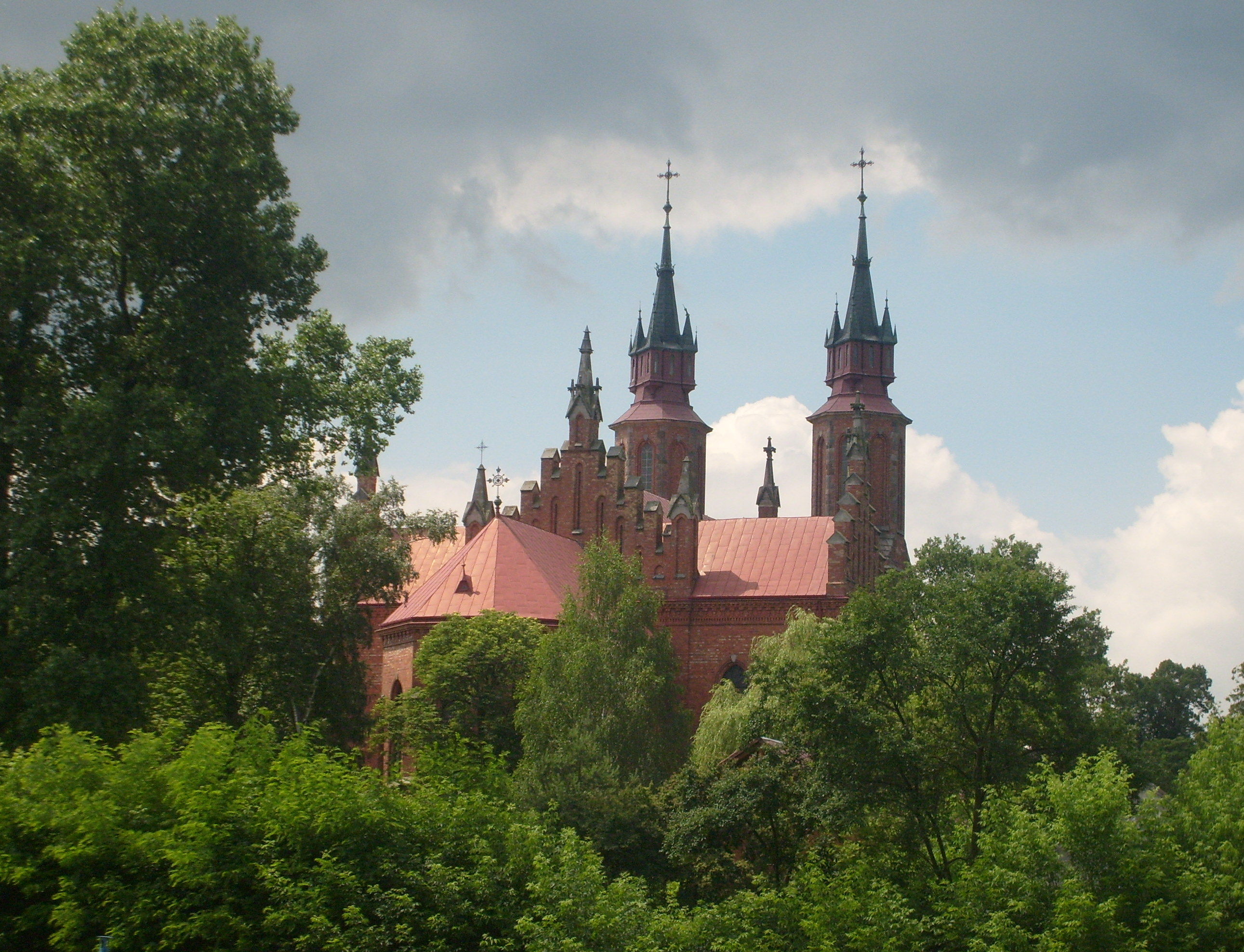 Church in Osieck, Masovia Voivodship, Poland.